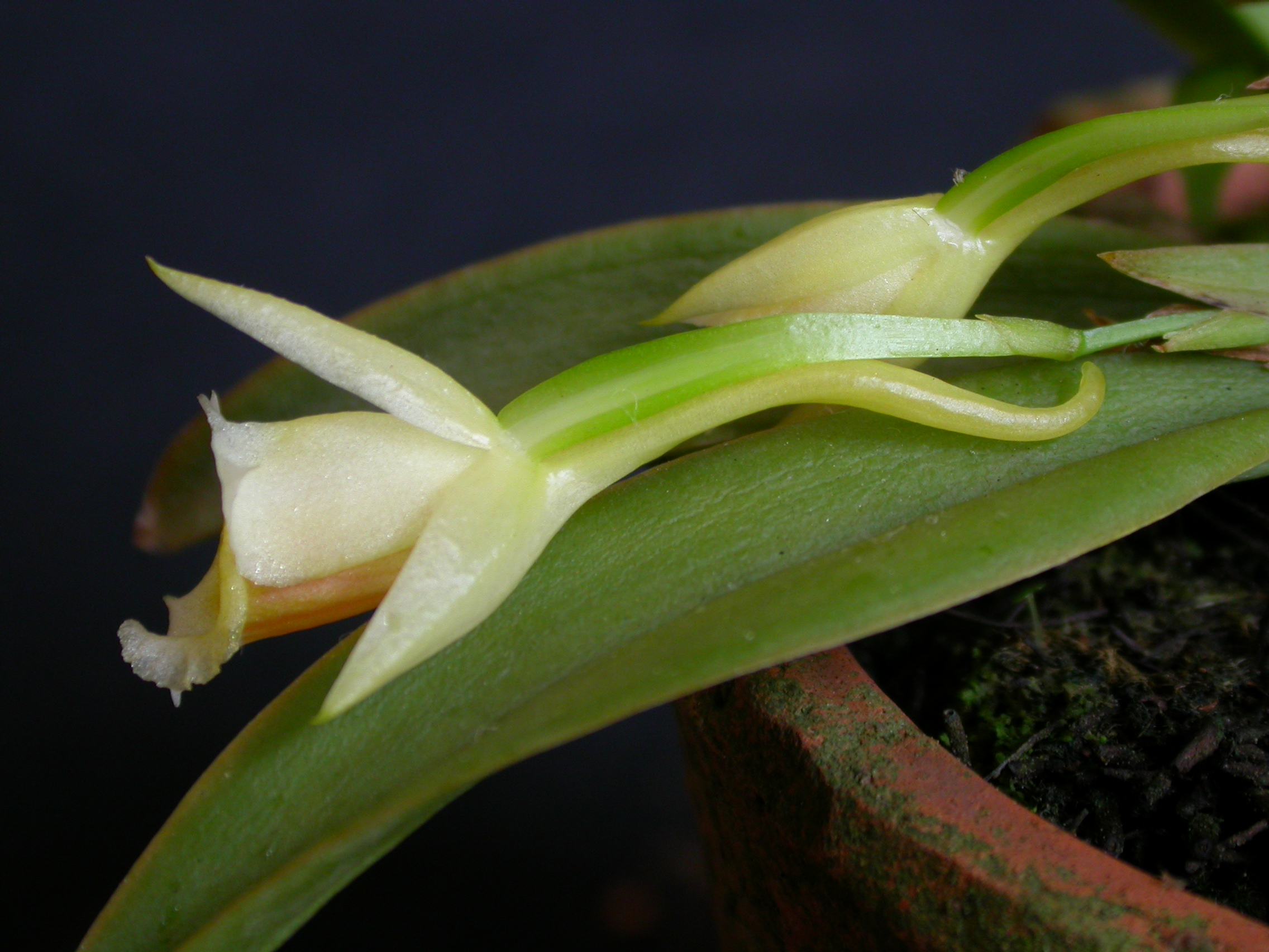 Plectrophora cultrifolia